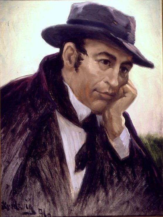 painted 14 years after the death of Moe. The painting is a cropped version of the painting "Jørgen Moe på samlertur".